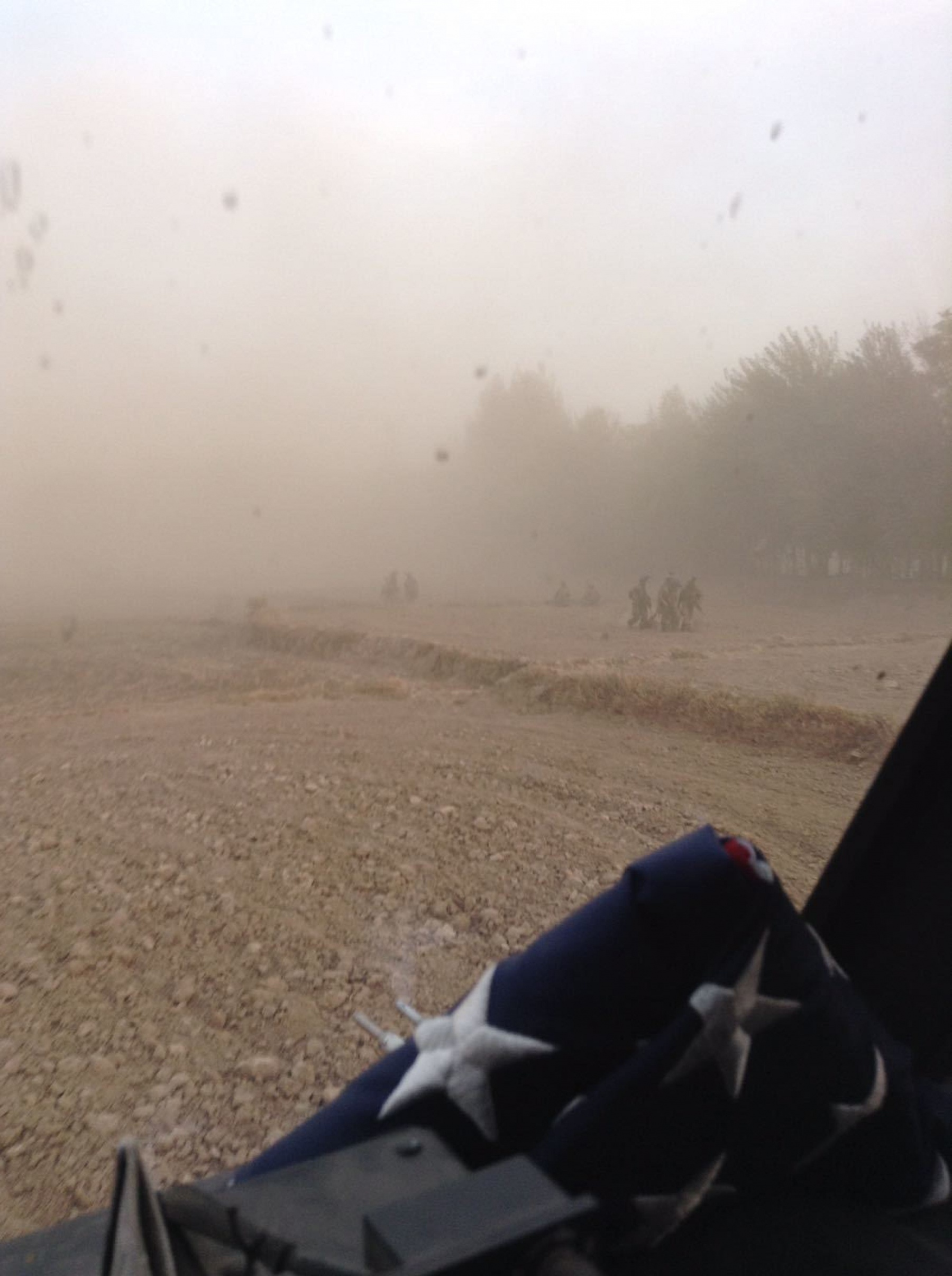 U.S. Army Green Berets of 10th Special Forces Group (Airborne), and their Afghan partner force, transport wounded soldiers through a hot landing zone to a waiting medical evacuation helicopter while a determined enemy force continues to attack during the Battle of Boz Qandahari, Afghanistan on Nov. 3, 2016. The folded American flag, which was on the MEDEVAC helicopter that day, was later given to the unit in memory of two Green Berets who were killed in action during that all-night battle.